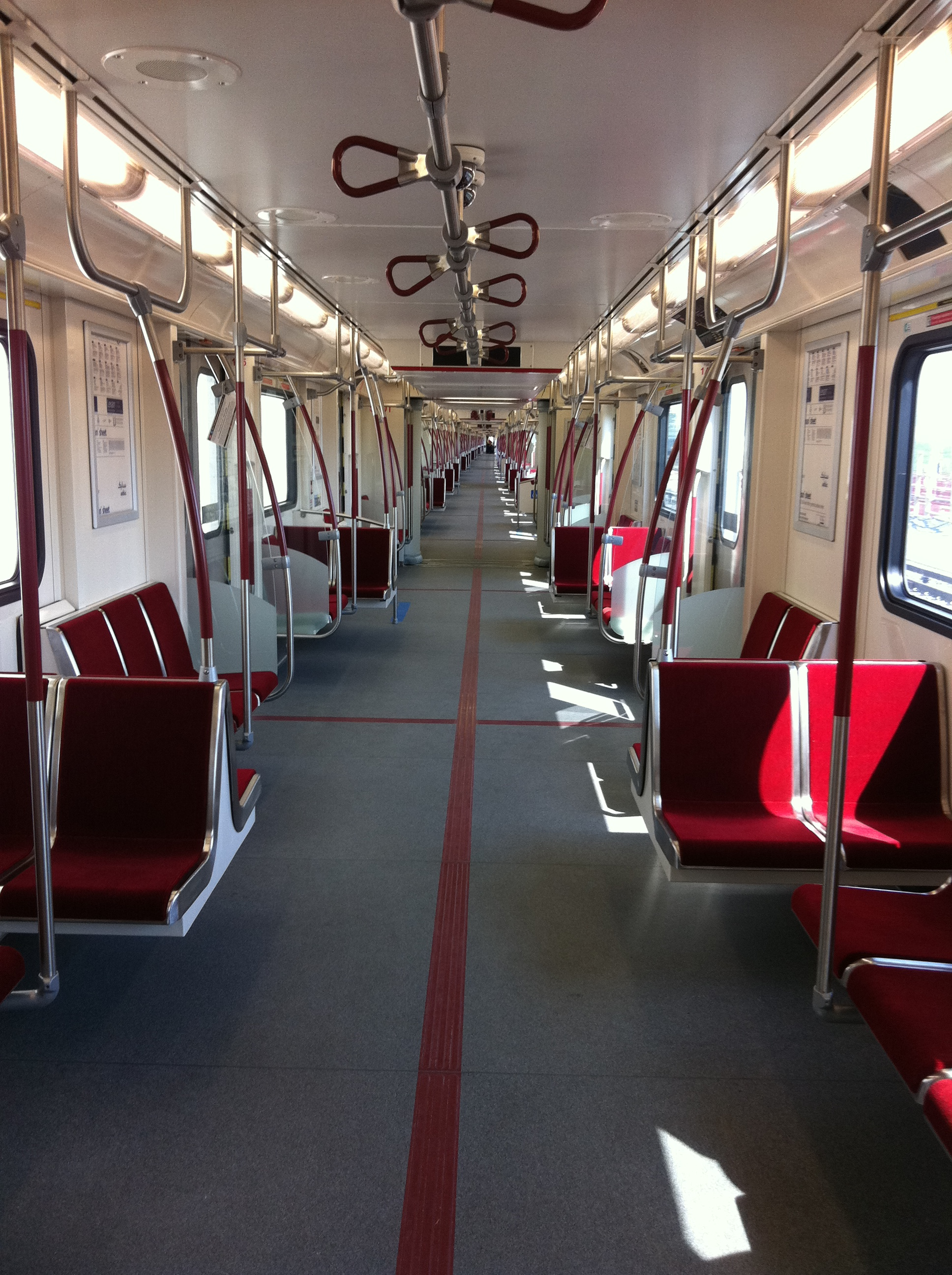 Clear Corridor Gangway of the Toronto Rocket Subway Train